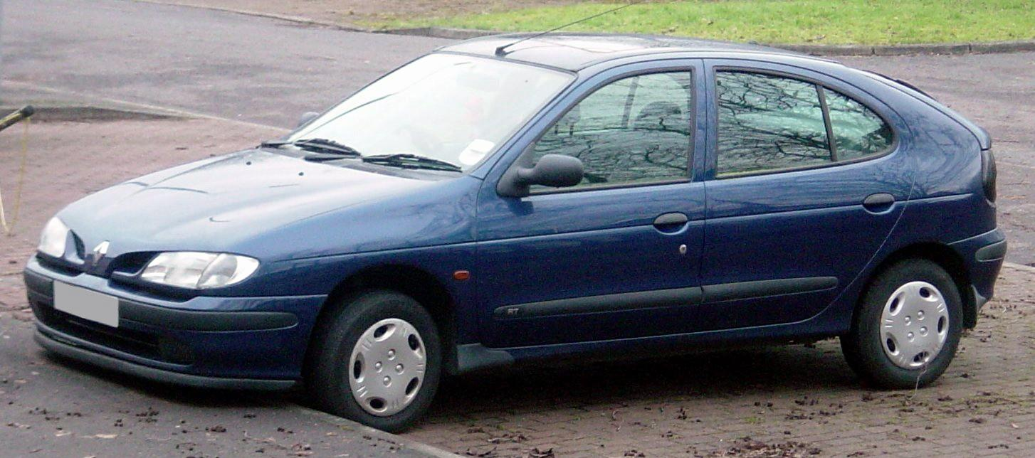 created by Mazurka